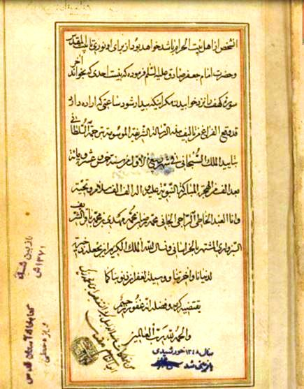 Tarjamat al-Sultani or Tafsir-e Agha Muhammad al-Sultani by Muhammad Reza ibn Muhammad Mehdi ibn Muhammad Baqir al-Sabzevari known as Agha Muhammad al-Sultani commissioned by Soltan Hosein Safavi in 1703 (1115 A.H.) Central Library of Astan Quds Razavi , Registered Number: 1461